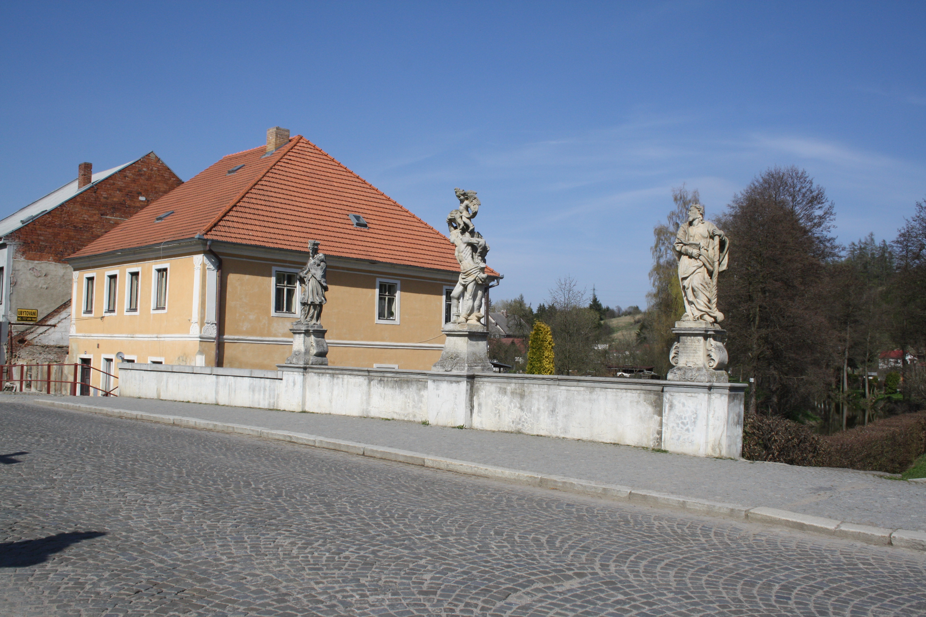 Statues of bridge under castle in Brtnice.